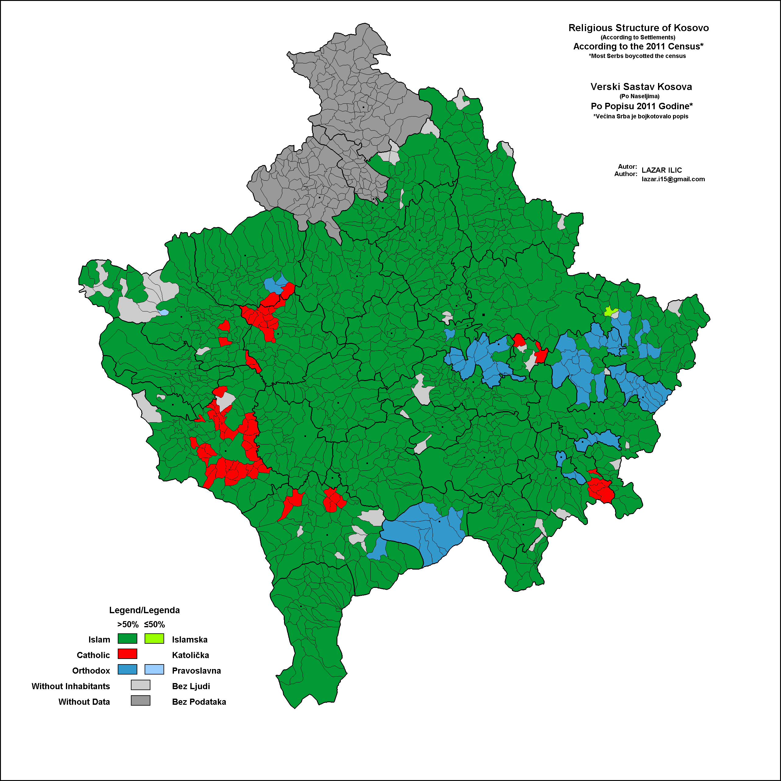 Religious map of Kosovo according to the 2011 census.